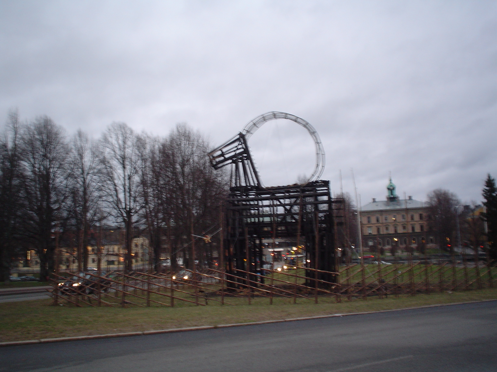 Gävle Goat